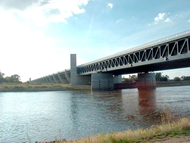 Magdeburg Water Bridge (Wasserstraßenkreuz)